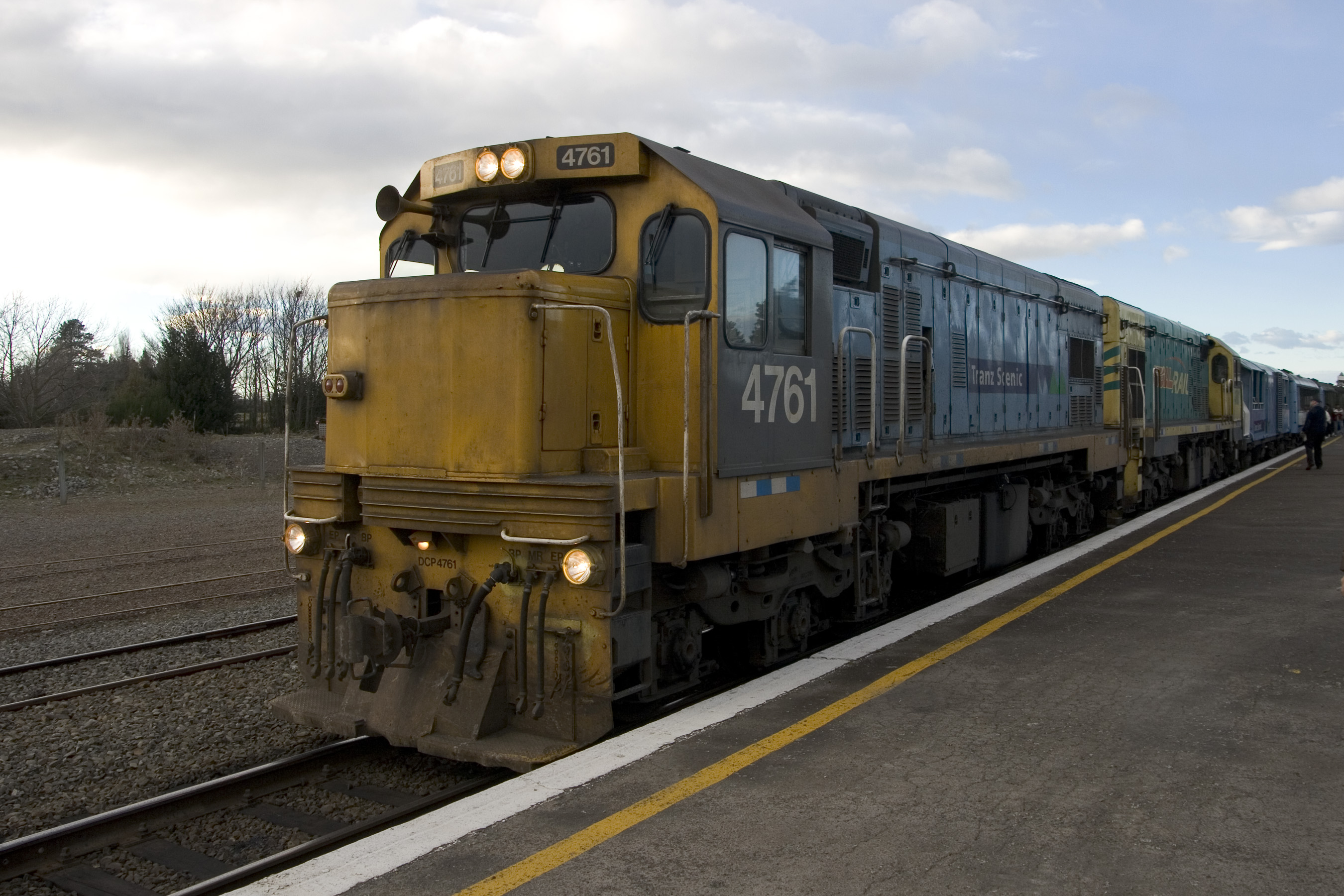 Tranz Scenic Locomotive 4761